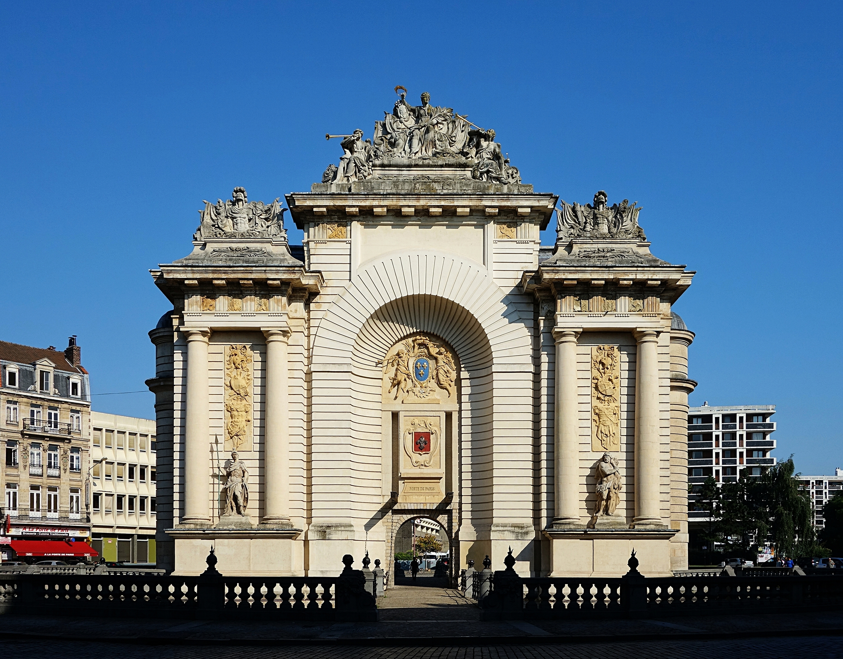 Paris' Gate (Porte de Paris) in Lille (France – Nord department)